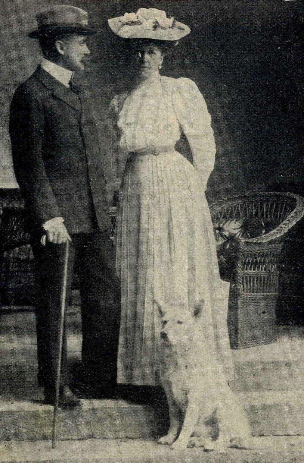 Count Elemér Lónyay with his wife Princess Stéphanie of Belgium, 1906